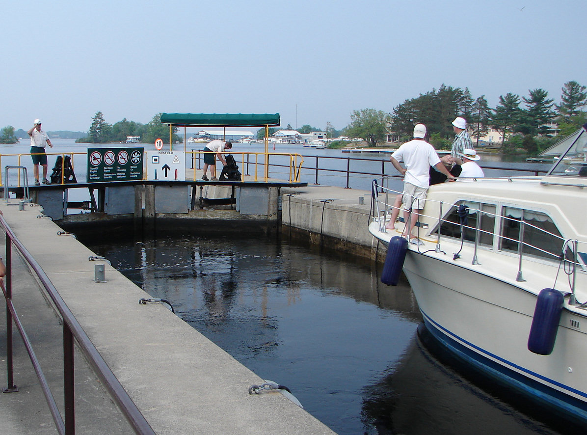 Lock 45 on the Trent-Severn Waterway, Port Severn, Ontario, Canada